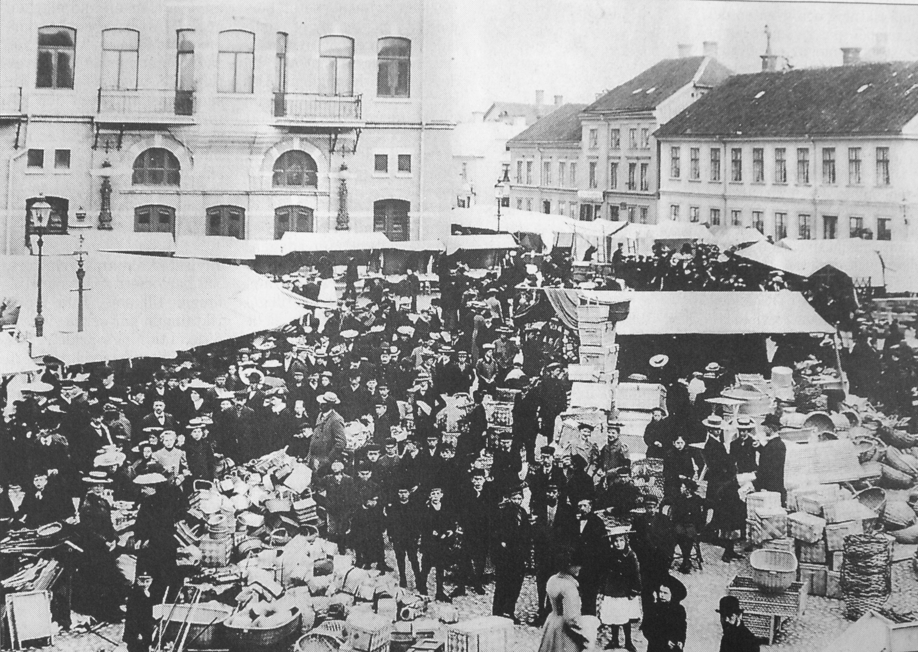 Photography of a marketplace in Jönköping in the end of the 1800s. The place is called Hovrättstorget today, and in the background you can see the house of theatre made by the architect August Atterström.